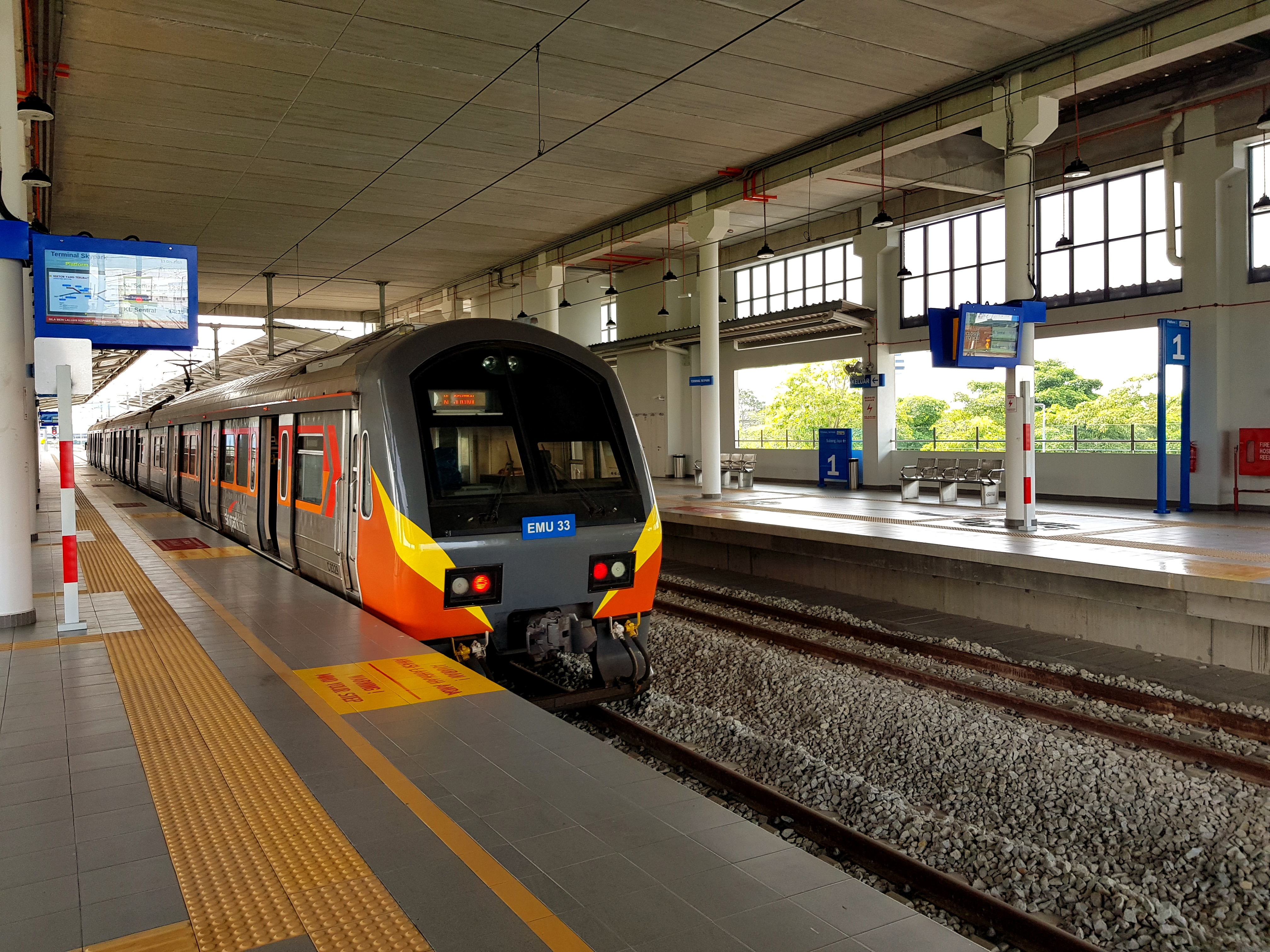 Skypark Link train, Terminal Skypark, Subang Airport, Selangor, Malaysia. Taken on 13 December 2018